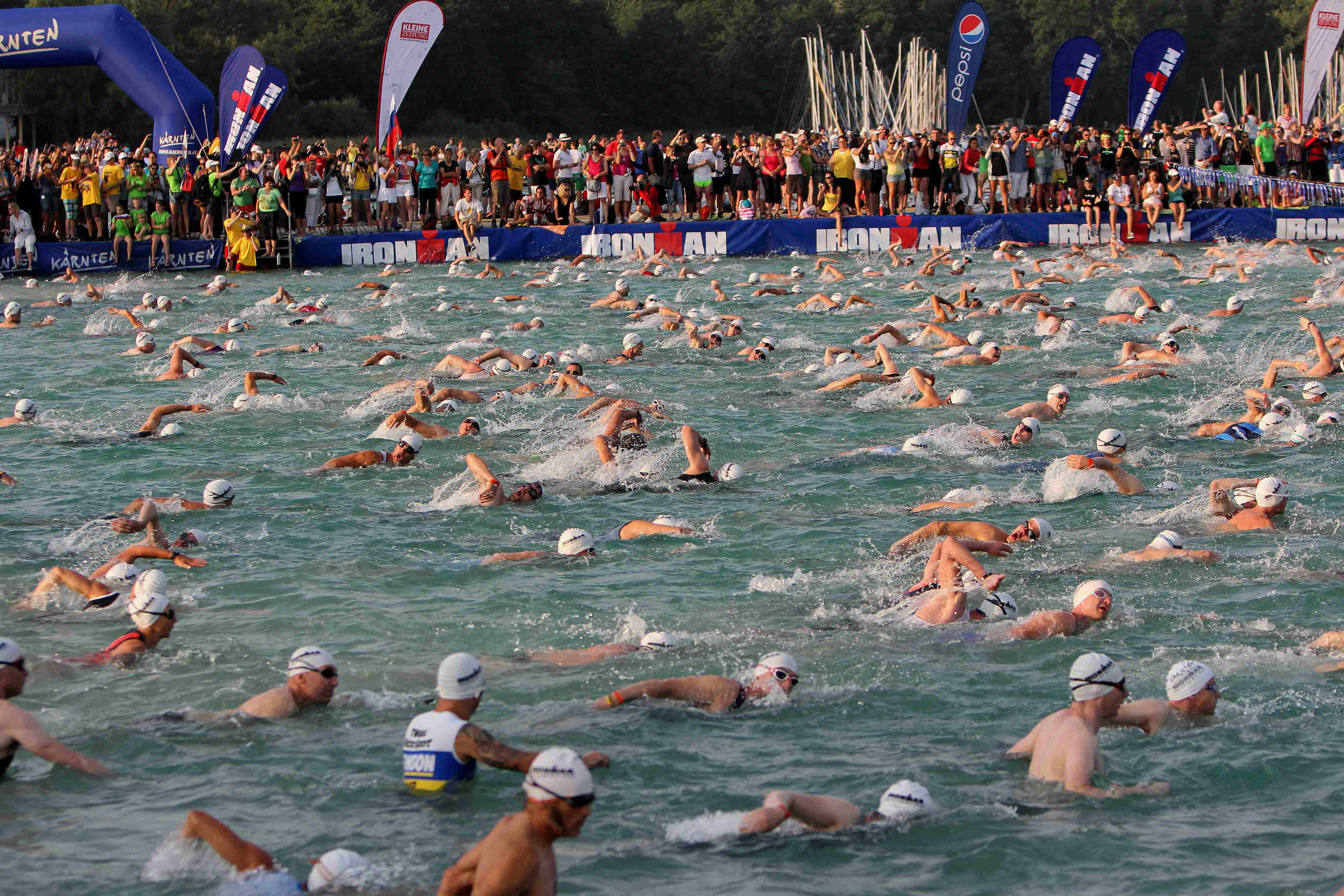 Swim Start at Ironman Austria 2012